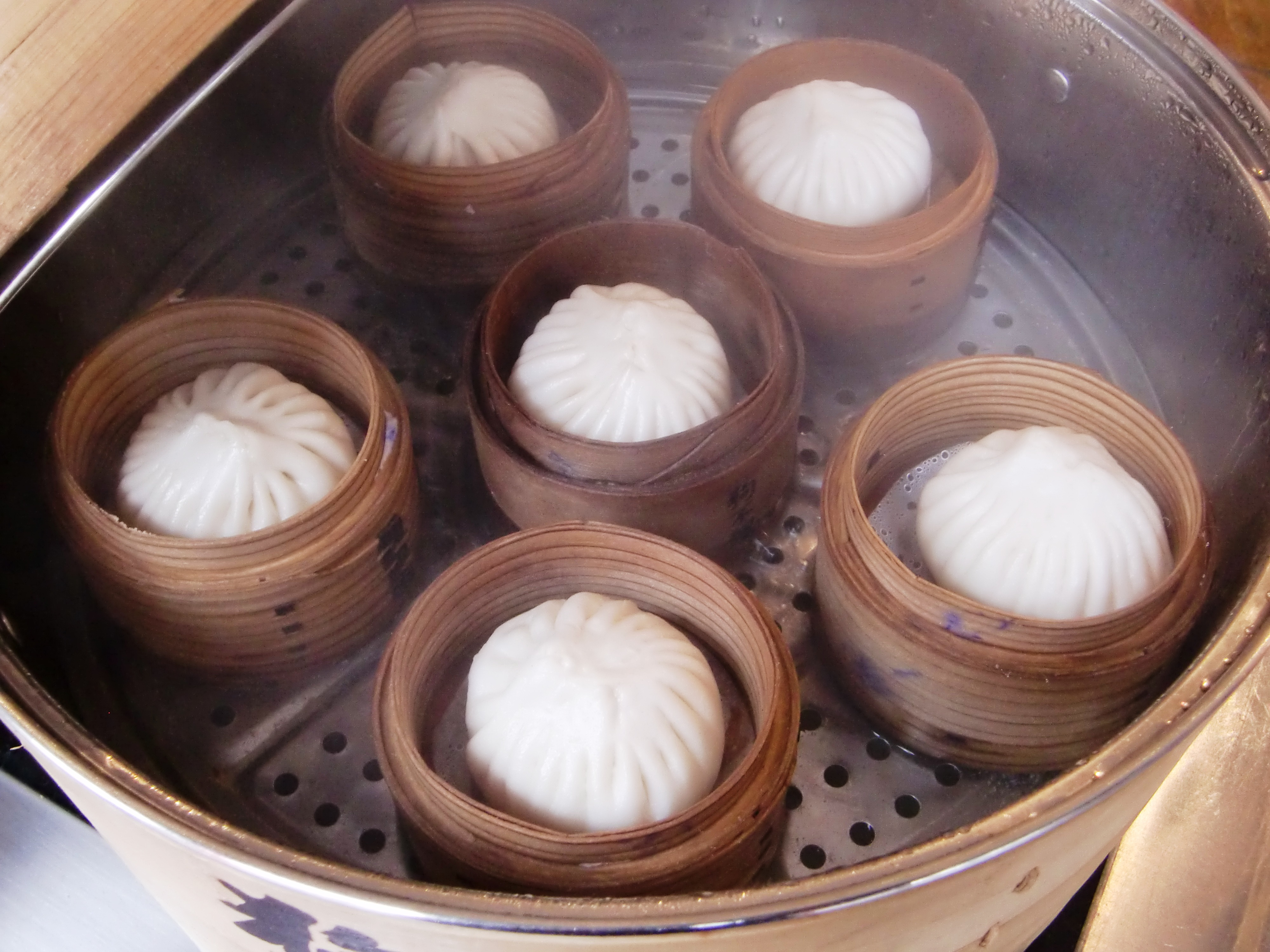 Goubuli Bun, being cooked (Dazhala branch, Beijing)